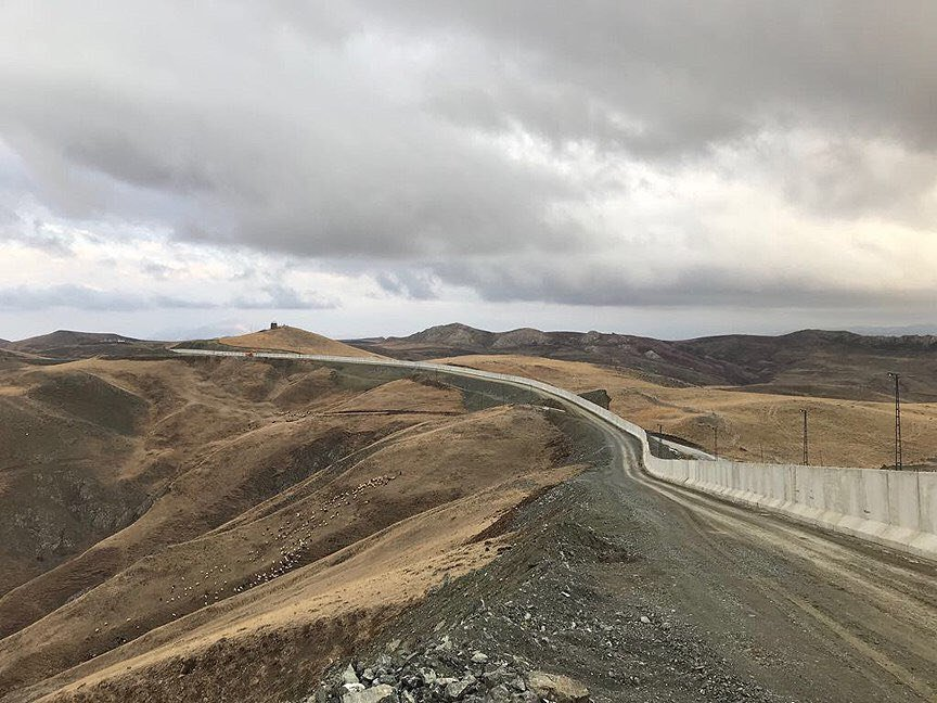 Wall built by Turkey on his border with Syria. It's total length 350 mi (564 km) in june 2018